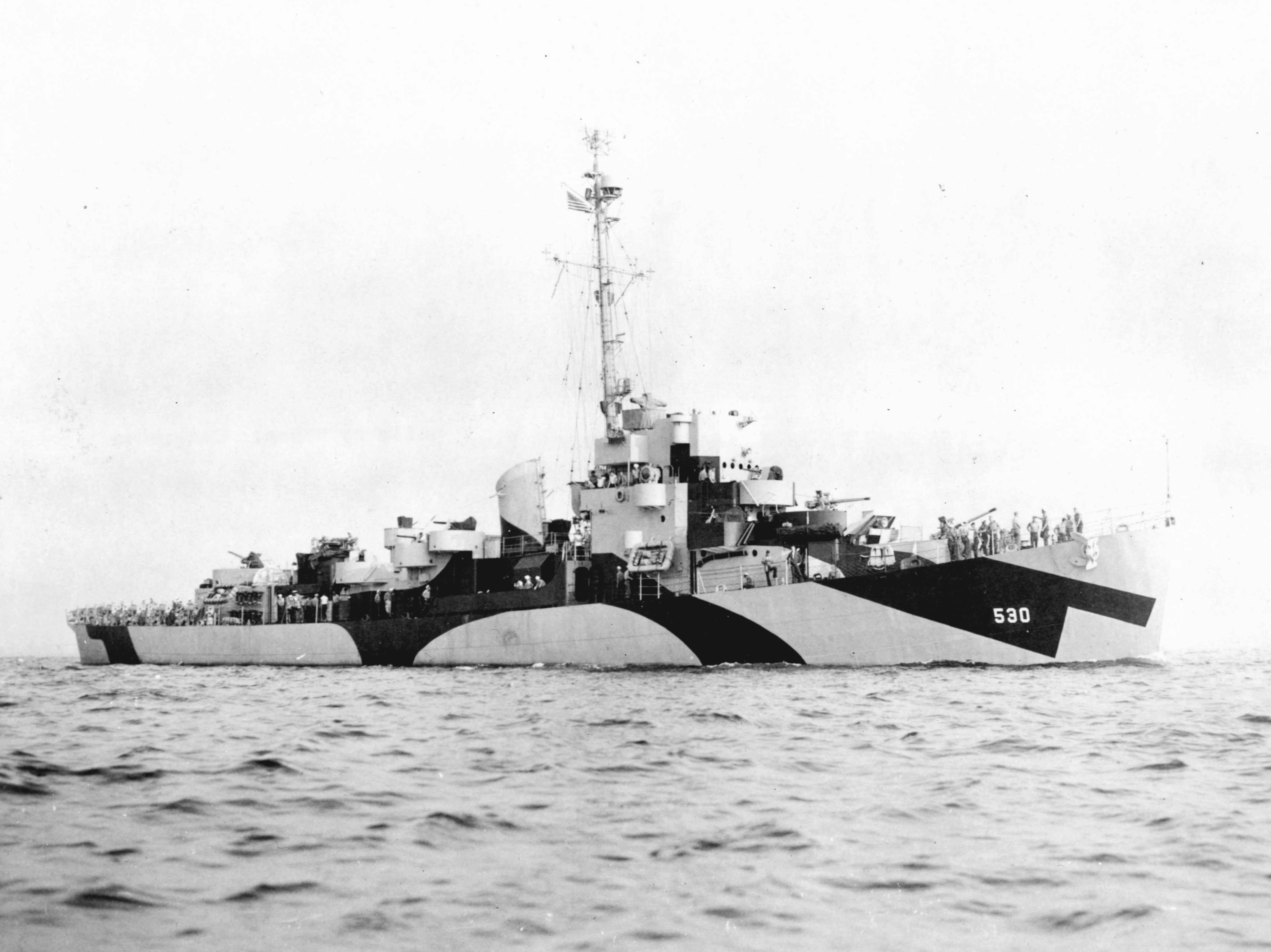 The U.S. Navy destroyer escort USS John M. Bermingham (DE-530) off Boston, Massachusetts (USA), on 15 August 1944. Her camouflage scheme is Measure 31 Design 1D.